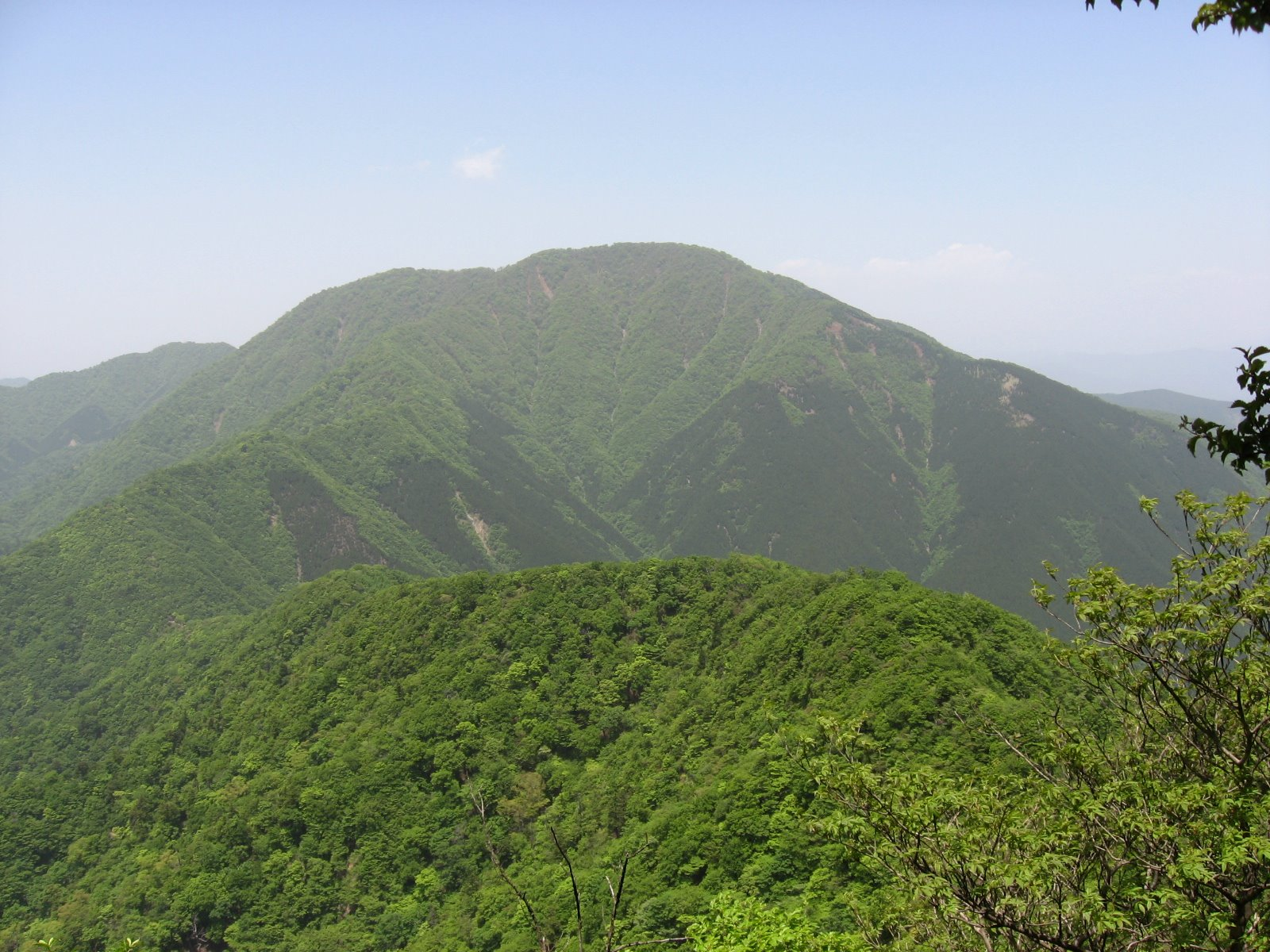 Mt. Omuro as seen from near of the Mt. Okoge in Tanzawa Mountains, Kanagawa Pref., Japan.